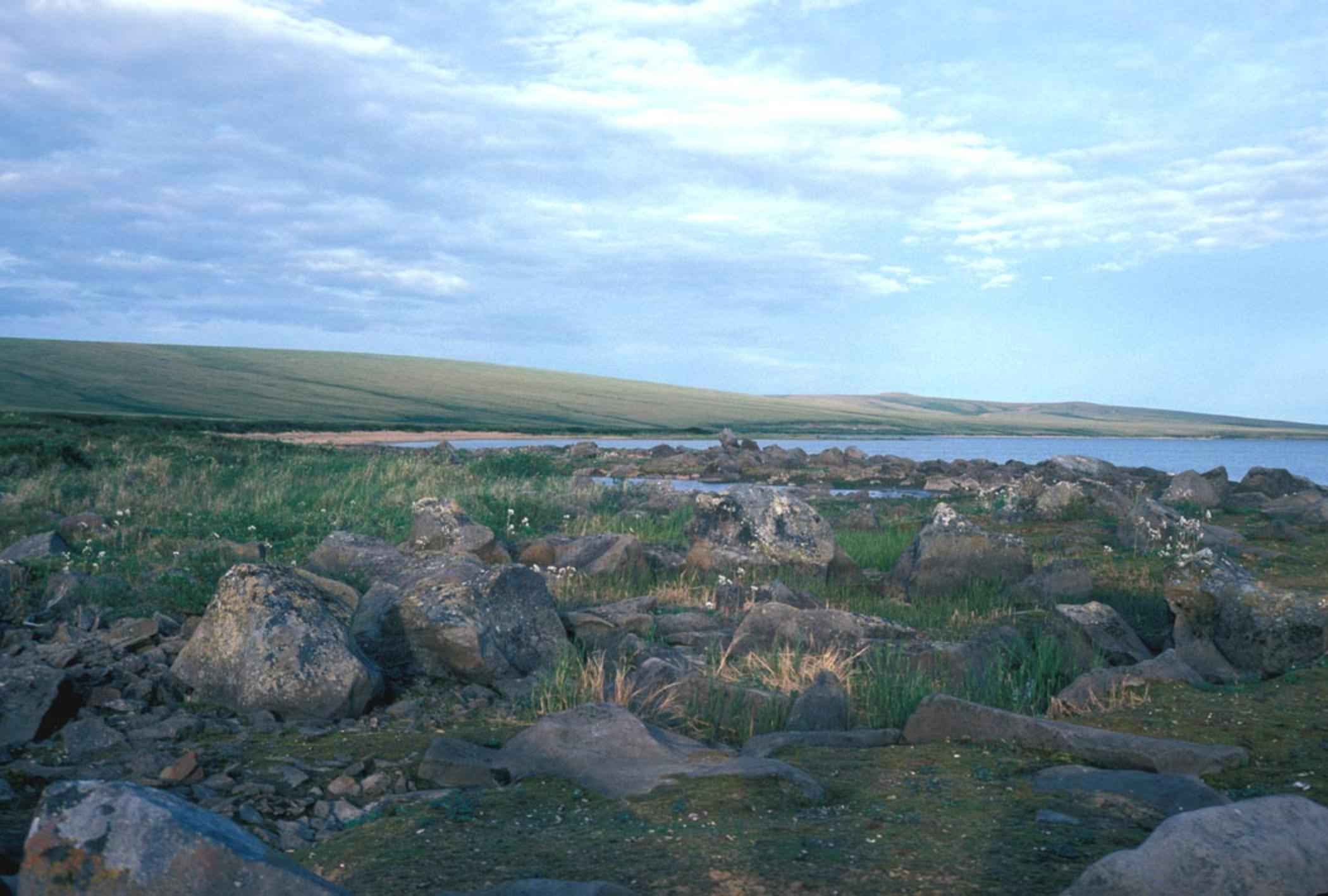 Image title: Imuruk lake in summer Image from Public domain images website